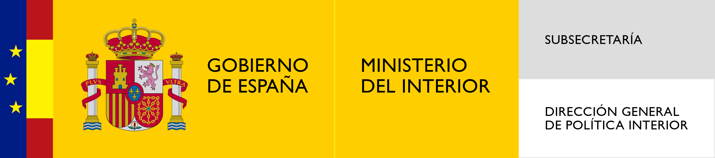 Logo of the Directorate-General for Internal Policy of the Government of Spain.